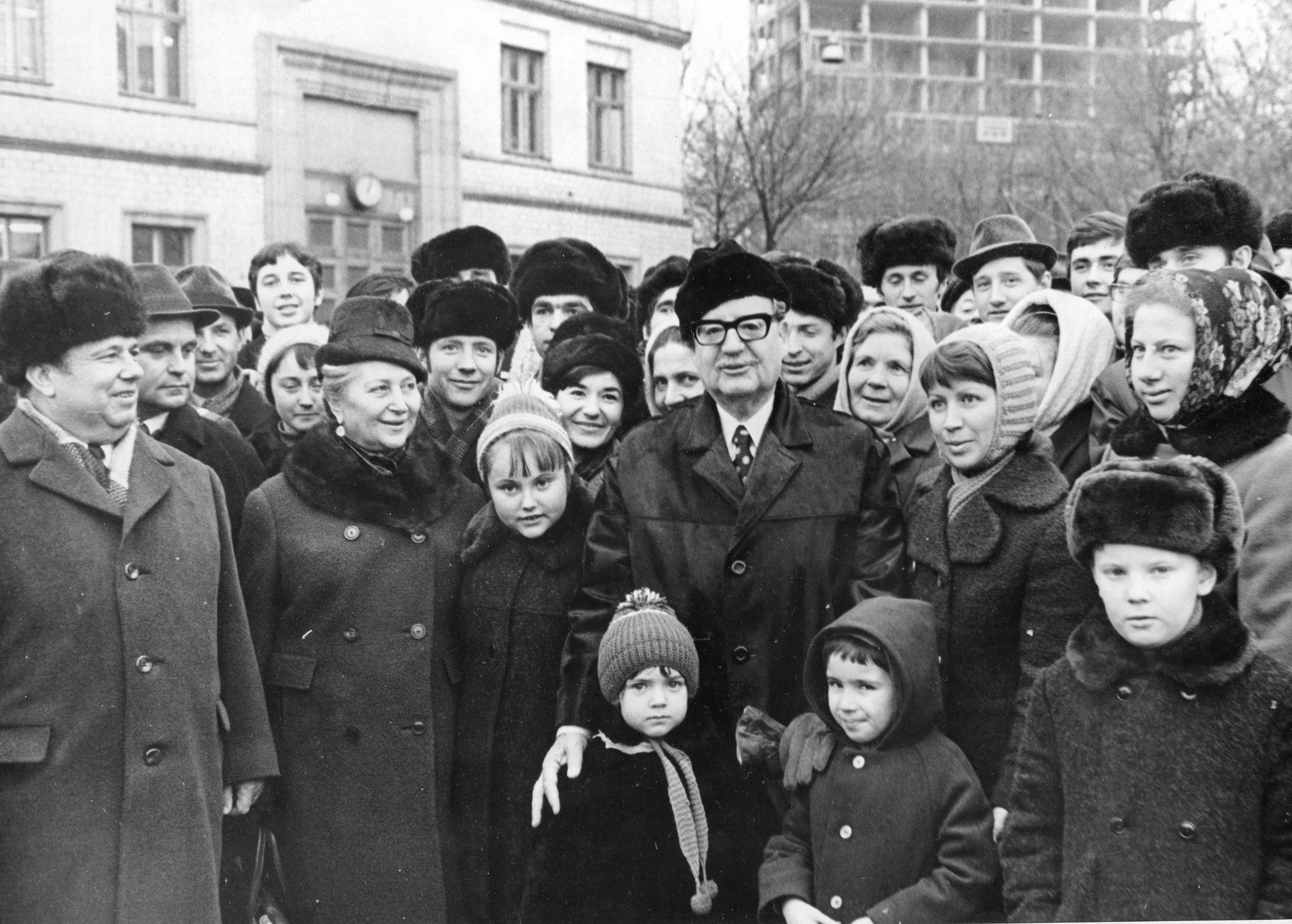 In December of 1972, half a year before his death, Salvador Allende visited Kiev (Ukraine). Violating the protocol, he stopped his cortege on the Square of Glory (ru.: Ploschad' Slavy) to talk with the citizens.